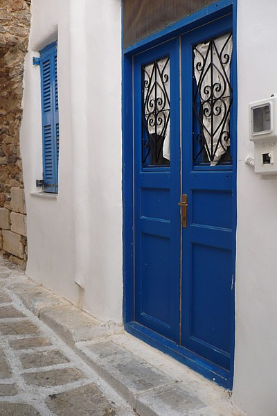 Antiparos house door